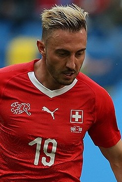 2018 FIFA World Cup Match 55, Sweden v Switzerland